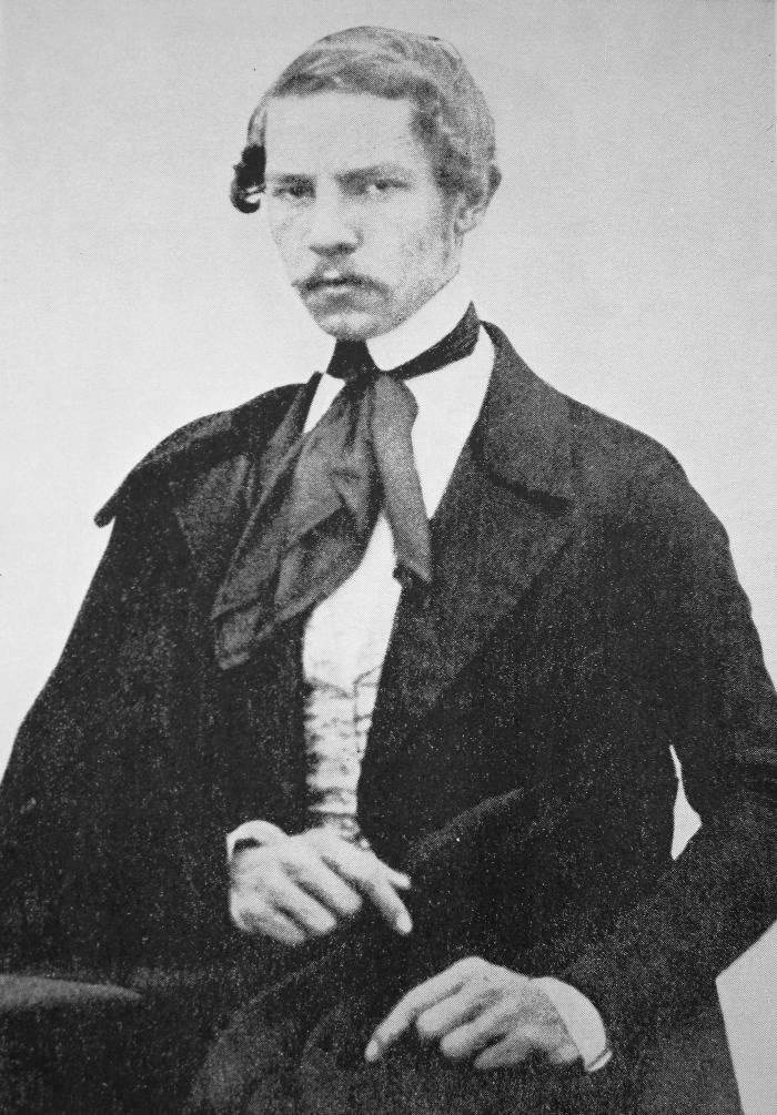 Otto Volger (1822-1897), German geologist und politician.